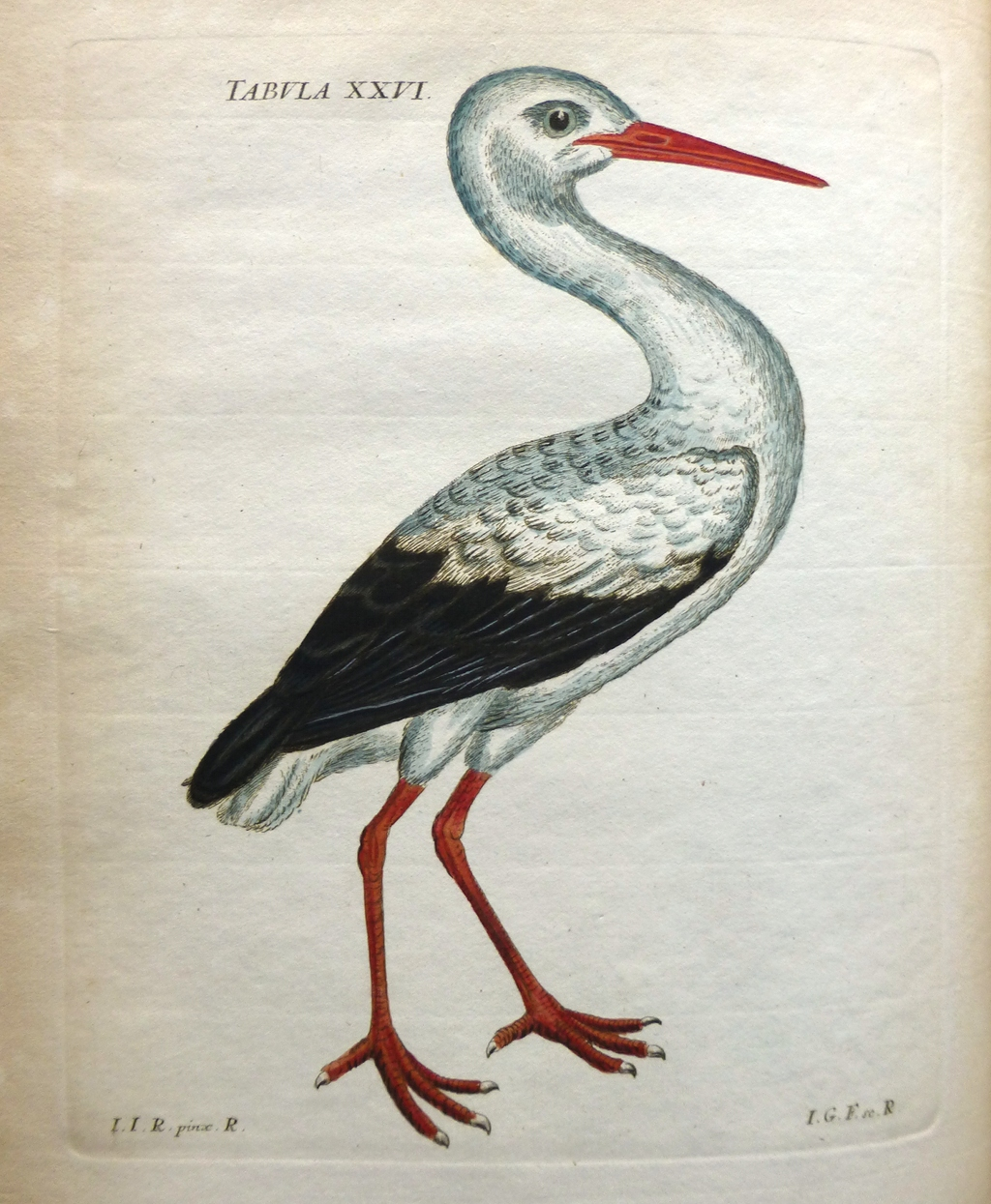 Ciconia alba = Ciconia ciconia (White Stork)